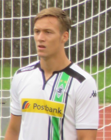 Tim Knipping, August 2015